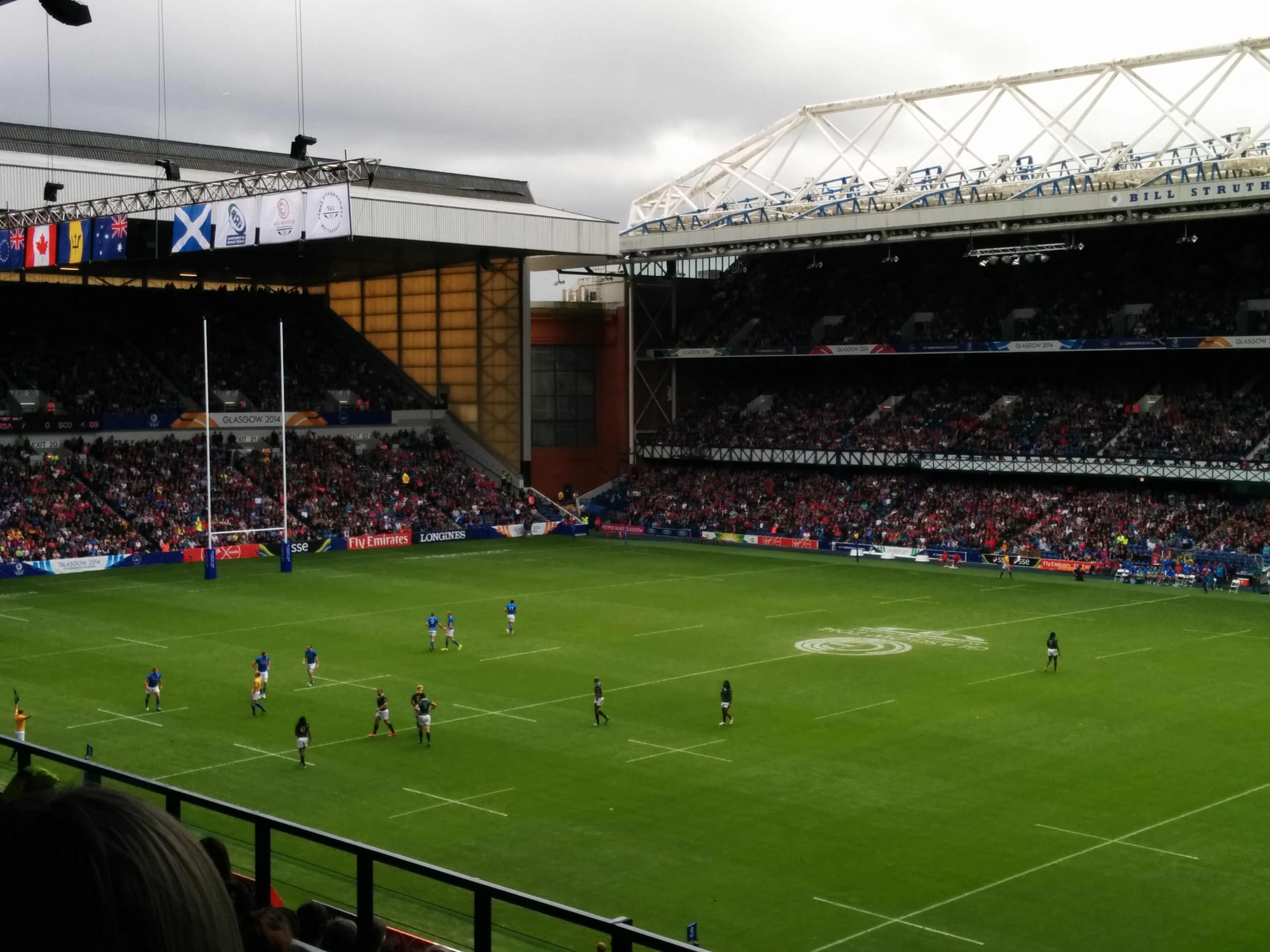 Men's Rugby Sevens at the 2014 Commonwealth Games